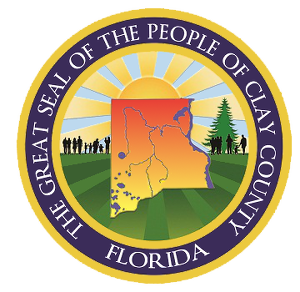 Logo/seal of Clay County, Florida